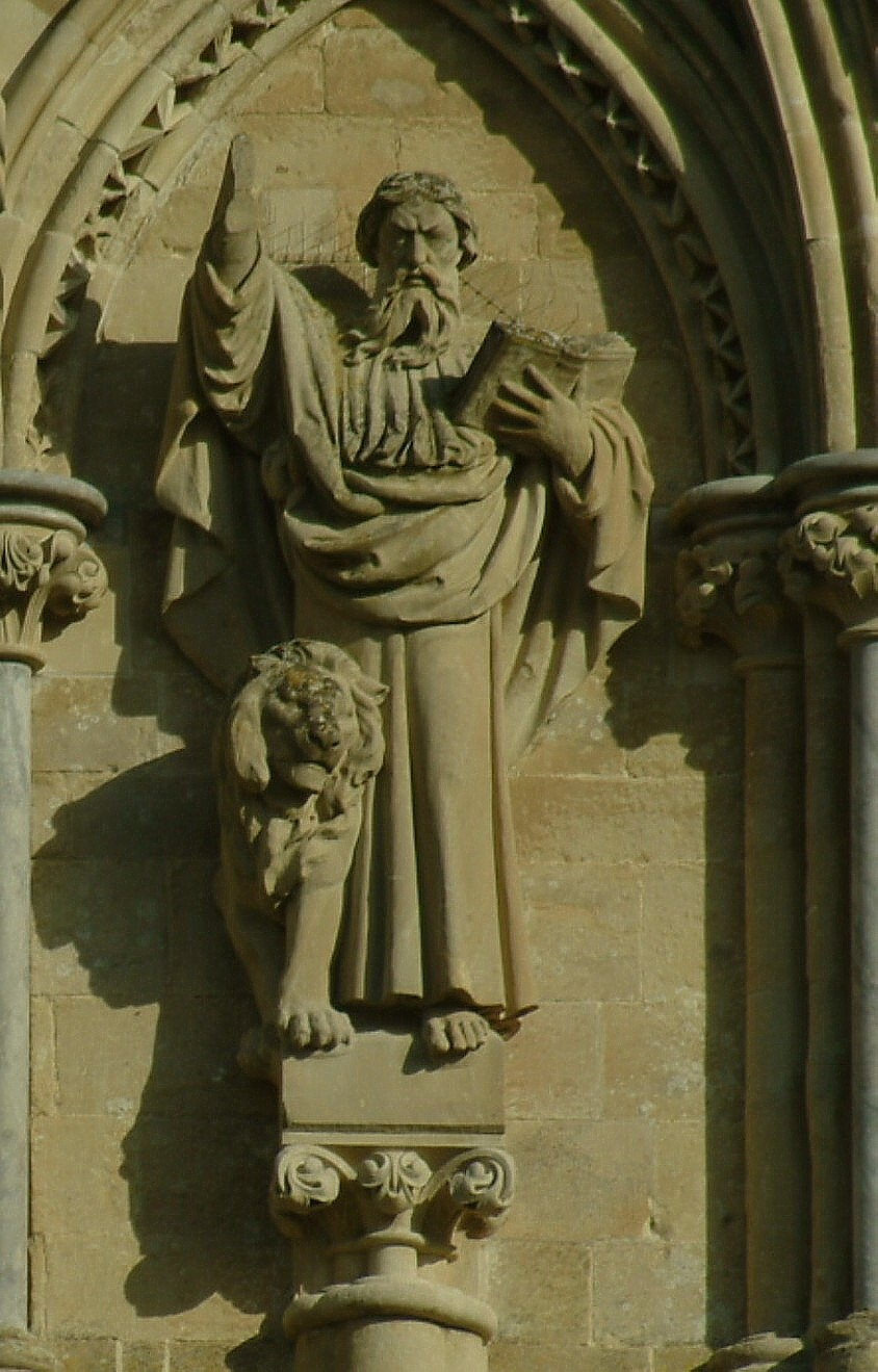 A statue of Daniel on the West Front of Salisbury Cathedral, UK.